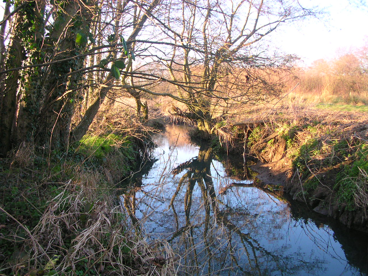 The former Petworth Canal near Haines Cottages. Petworth, West Sussex, England.